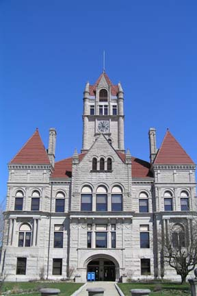 Front of the Rush County Courthouse, located on Courthouse Square in Rushville, Indiana, United States. Built in 1896, the courthouse is listed on the National Register of Historic Places, and it is part of the Register-listed Rushville Commercial Historic District.